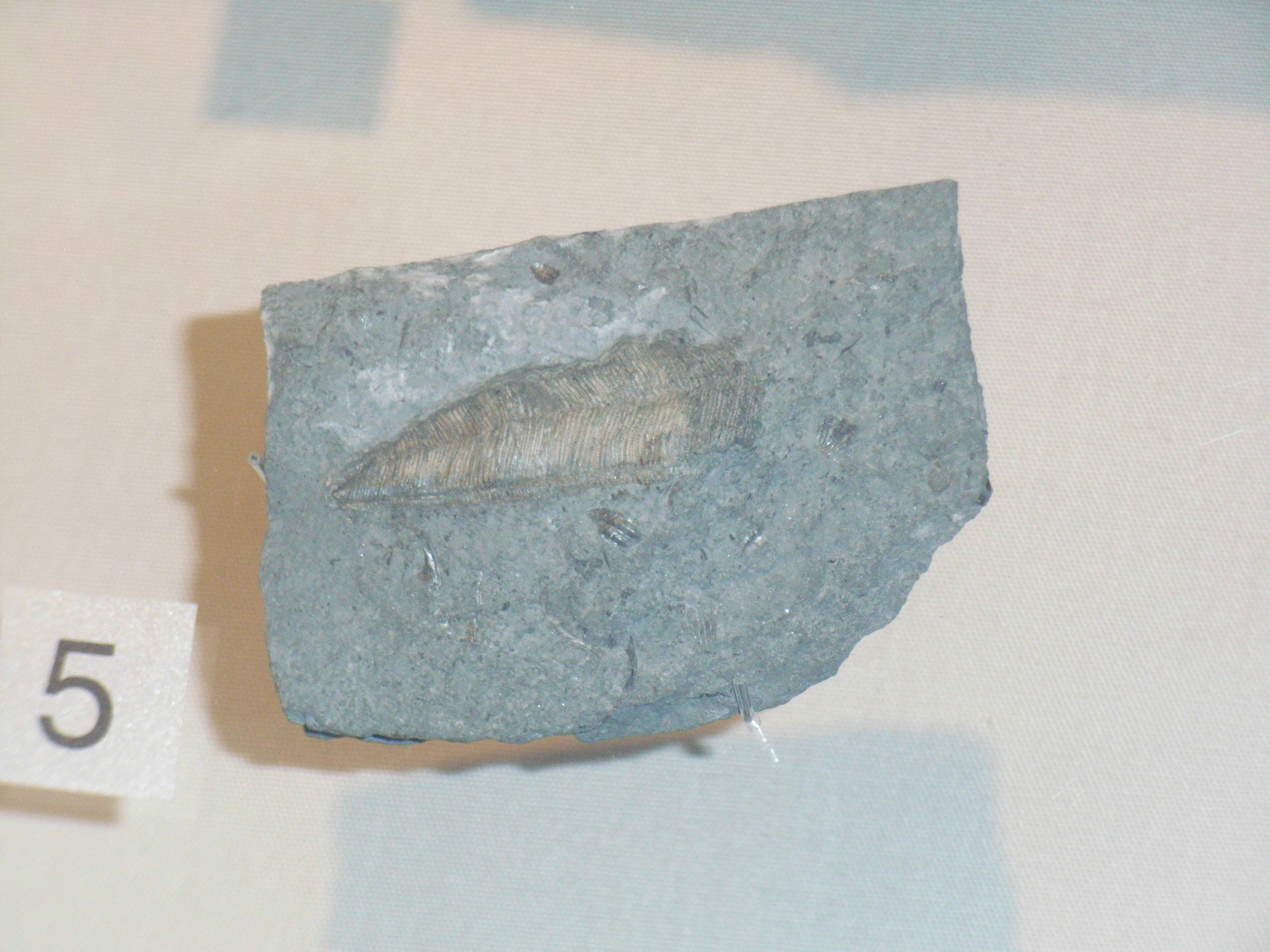 Conularia quadriscalaria (label name) Certainly Conularia Sowerby 1818 Silurian